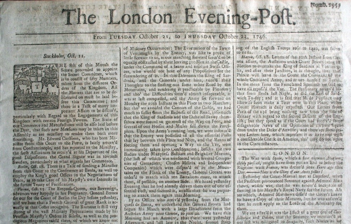 Top front page of the London EveningPost for October 21-23, 1746